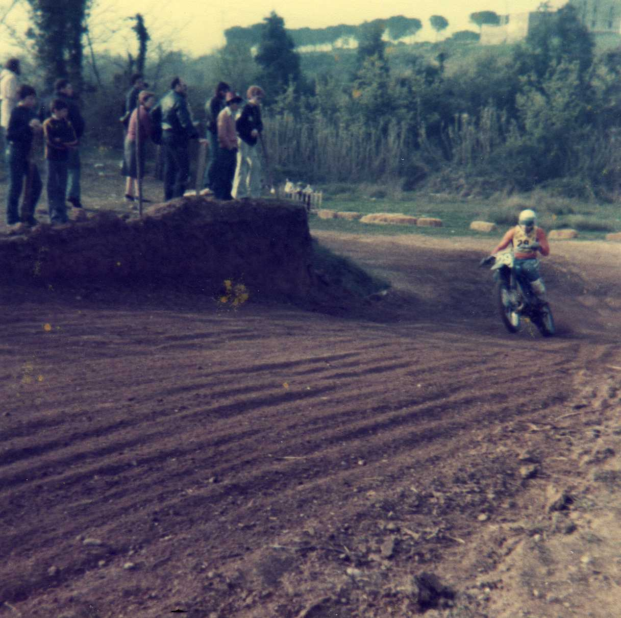 Fritz Schneider (Sachs) at Circuit del Vallès, Sabadell-Terrassa (Catalonia), during the 1979 spanish MX GP 250cc.